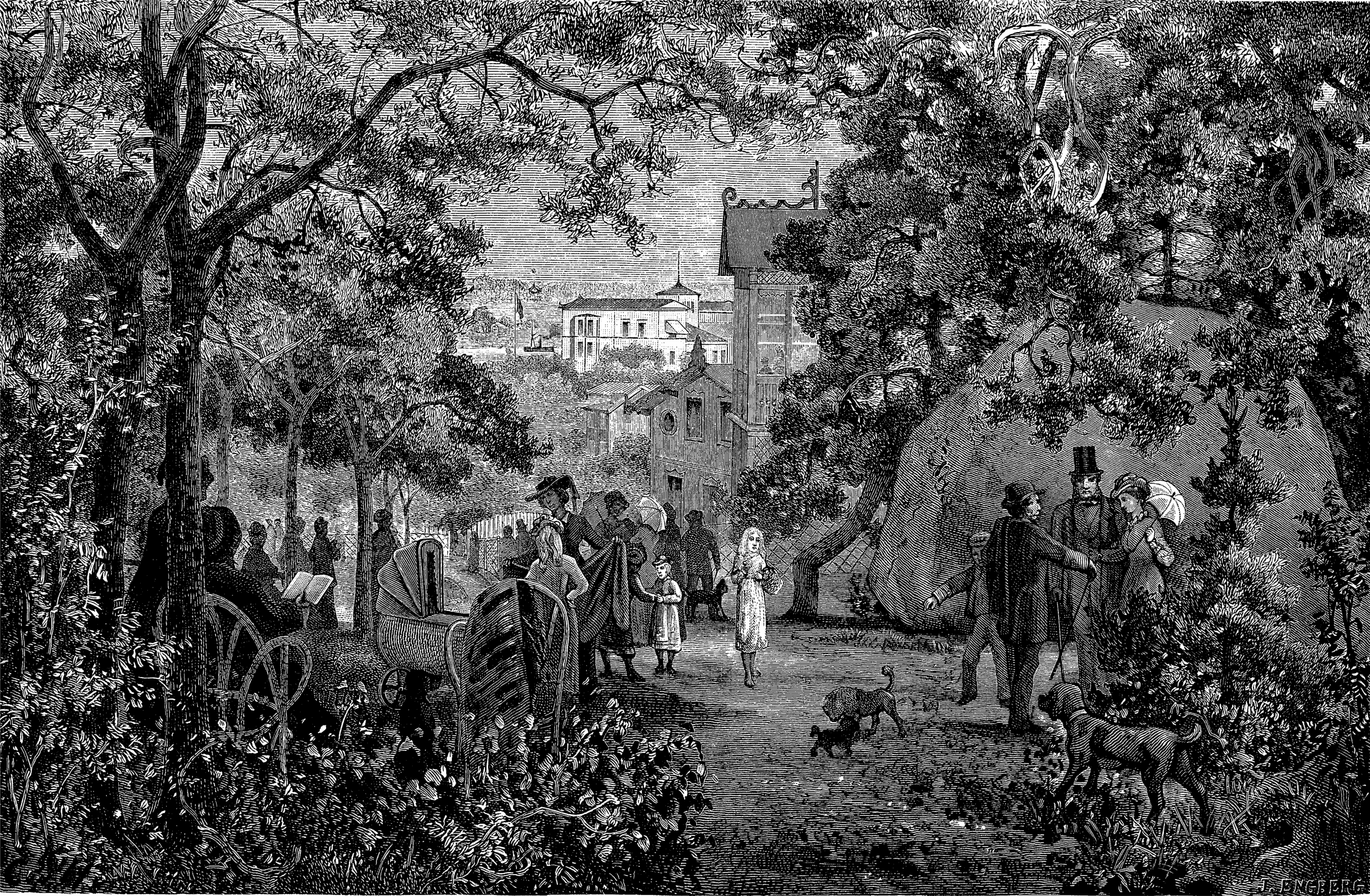 Parti från öfre parken i Södertelge shows the upper park in the city of Södertälje in Sweden. Artist: C.S Hallbäck